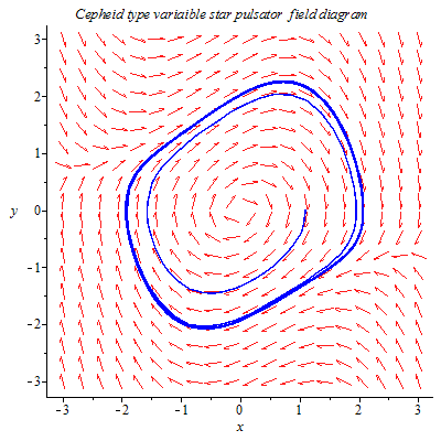 Cepheid varible star pulsator phase diagram